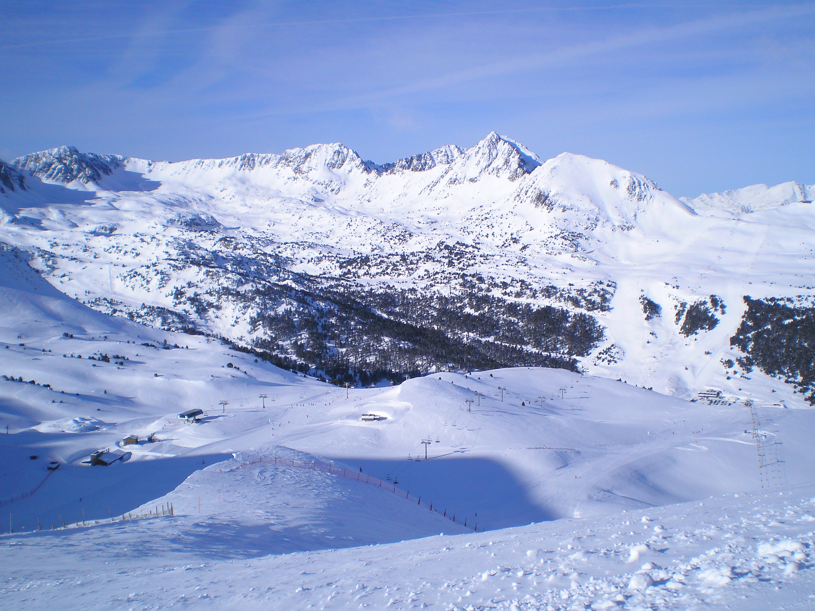 Grau Roig sector in ski resort GrandValira (Andorra). Mountains Pic Baix del Cubil (2705 m) and Montmalús (2781 m) can be seen.